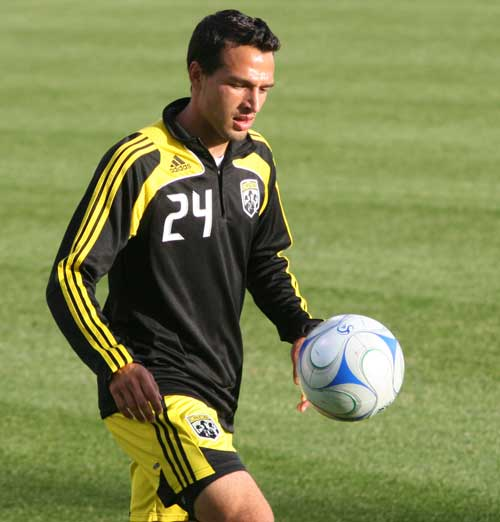 jed Zayner photographed by Jim Early on April 29, 2008 at the Jesse Owens Memorial Stadium on the campus of Ohio State University. The Columbus Crew played The Ohio State Buckeyes in the seventh annual Connor Senn Memorial Match.